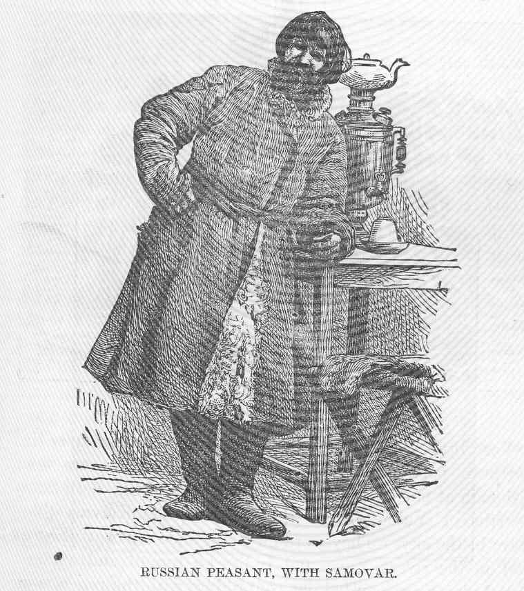 Russian Peasant, with Samovar Subject: Peasantry--Russia, Samovars Tag: People